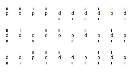 Reduced example of a d2-Test